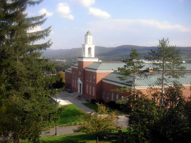 Yager Hall at Hartwick College, which contains the college library, classroom space and a small art museum.